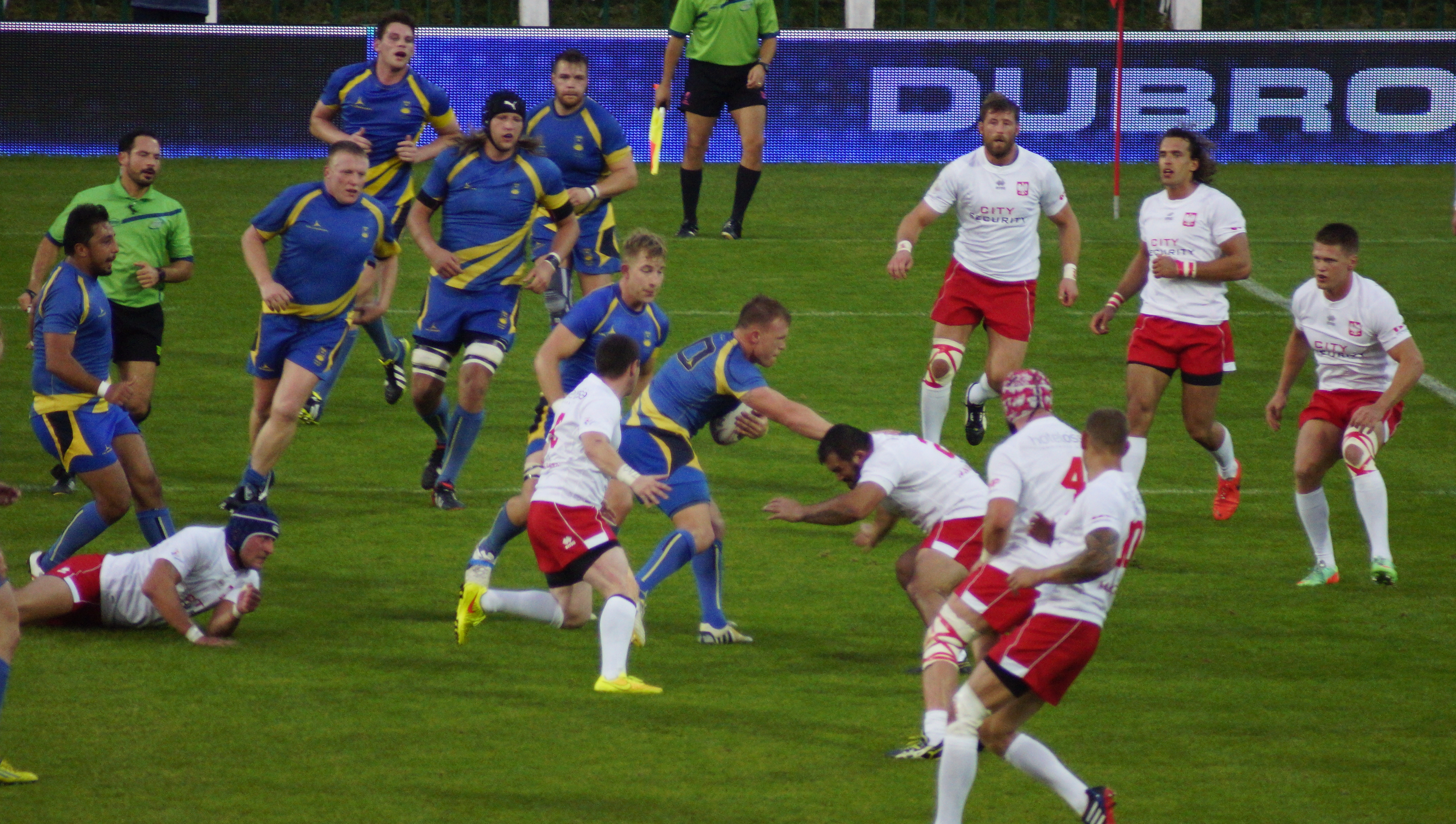 Sweden’s Neil Erasmus attacking during ENC rugby union match Poland vs Sweden.